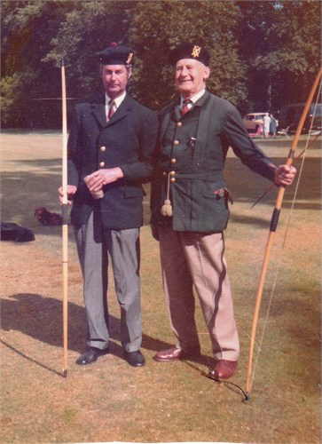 Adm Sir Angus Cunninghame Graham with his son Robert at the shoot for the Silver Arrow at Hopetoun House in 1976